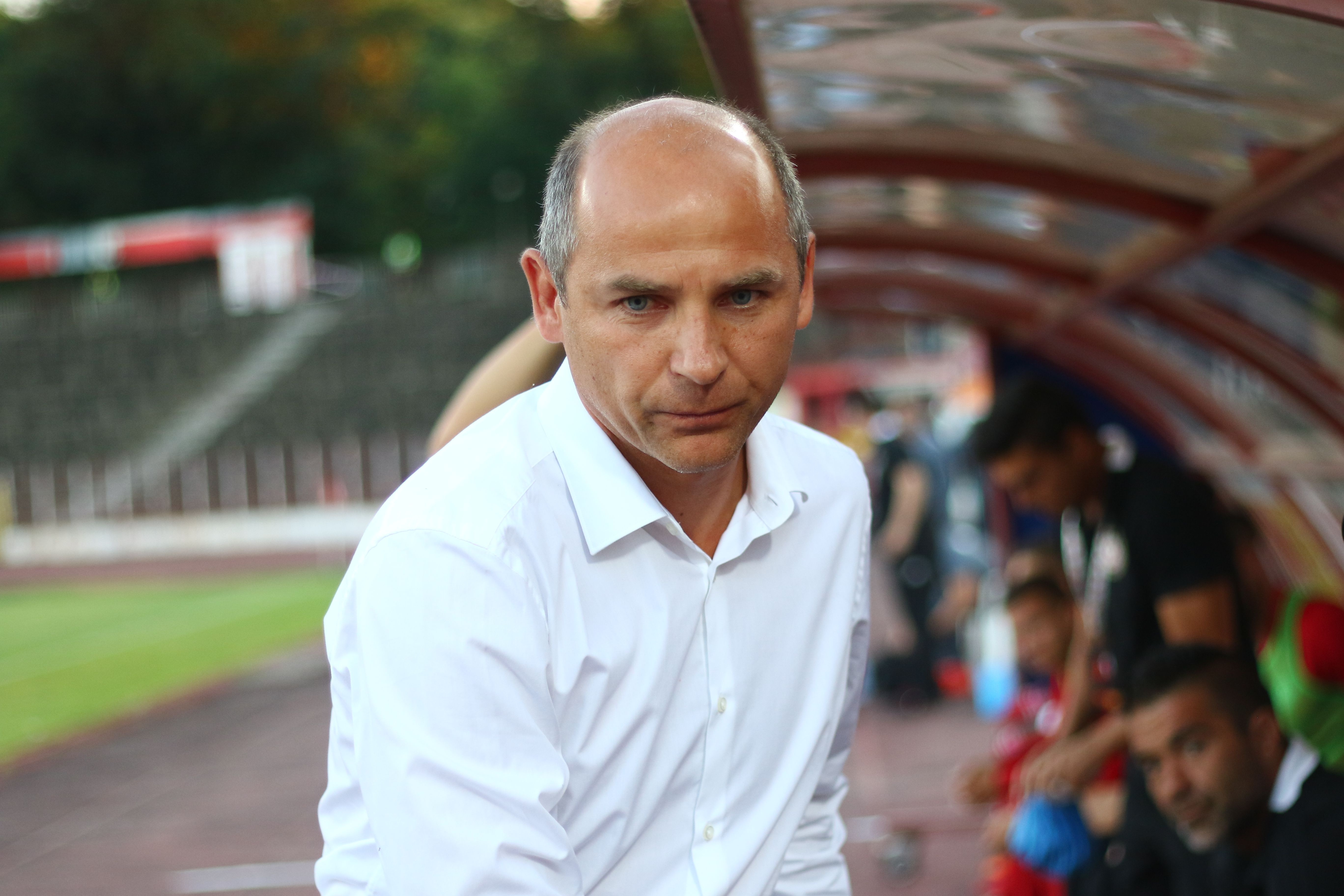 Viktor Anatoliyovych Skrypnyk (Ukrainian: Віктор Анатолійович Скрипник; born 19 November 1969) is a retired Ukrainian footballer and current manager of Riga FC. As a player, he helped Werder Bremen to the league and cup double in 2004.